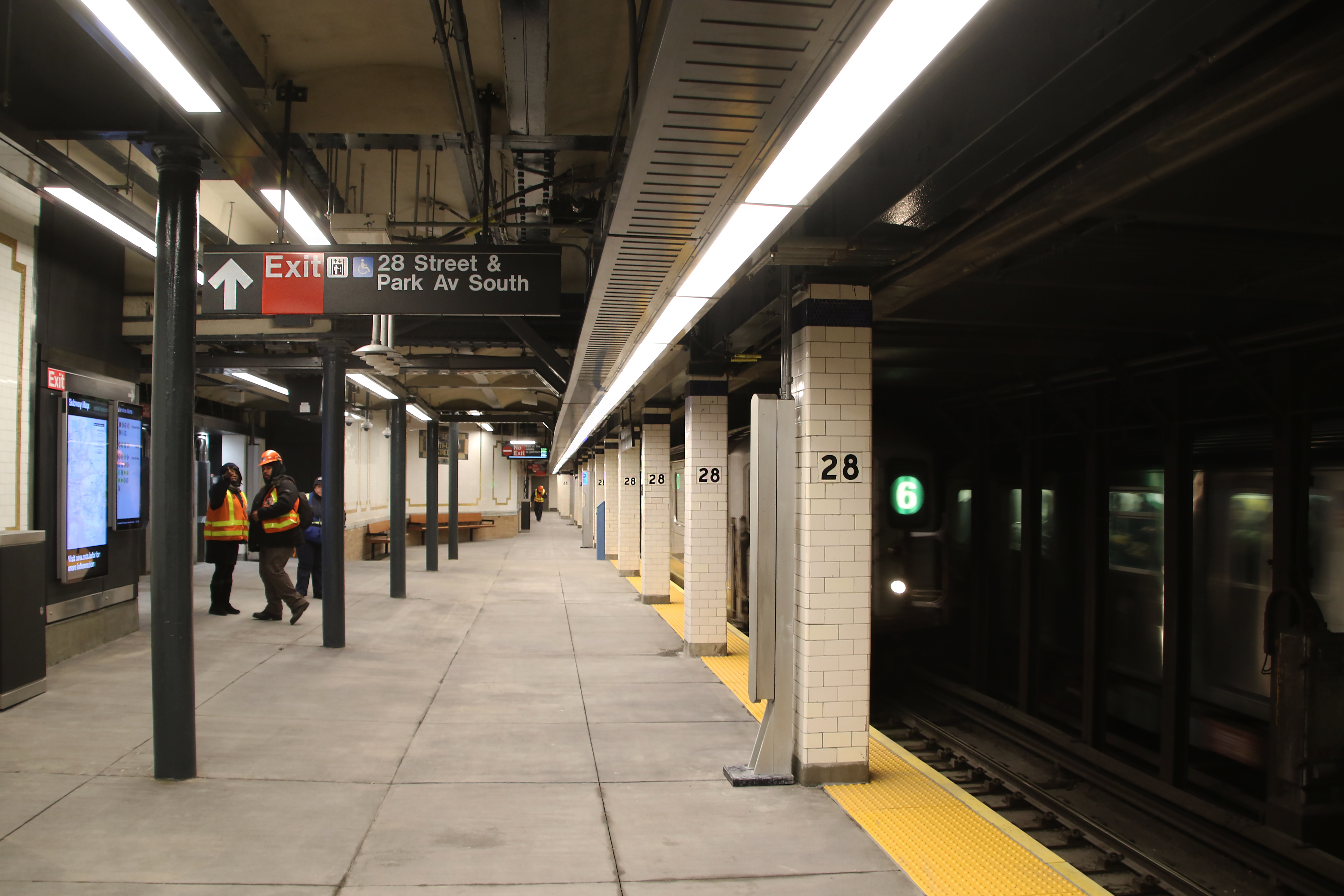 A view of the 28th St Station on the Lexington Ave Line.